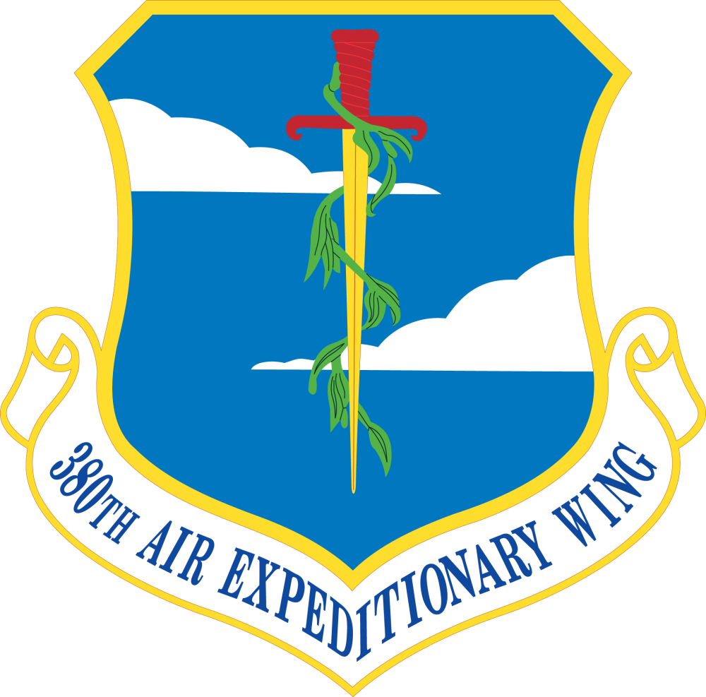 Emblem of the 380th Air Expeditionary Wing, a wing of the United States Air Force.